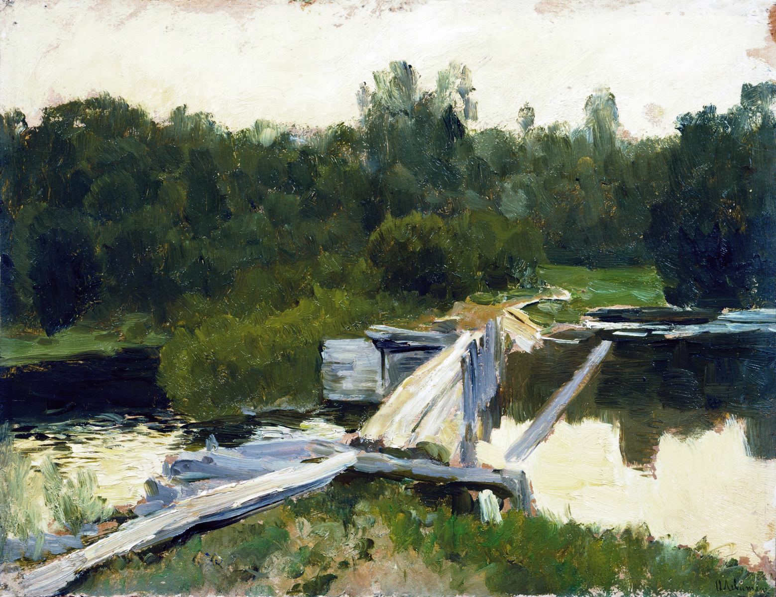 By the pool (study by Isaac Levitan, 1891)